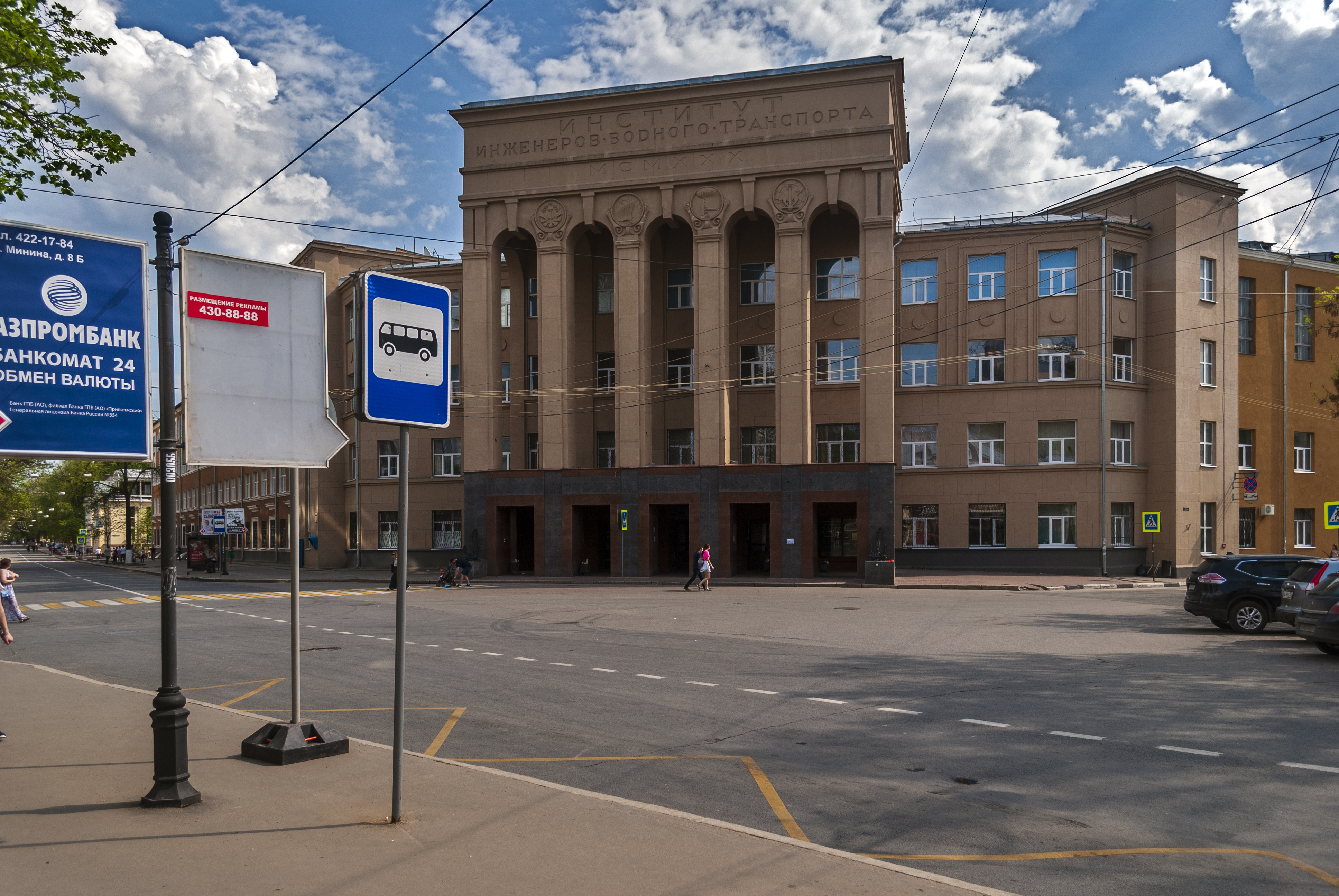 Volga State University of Water Transport. Main building